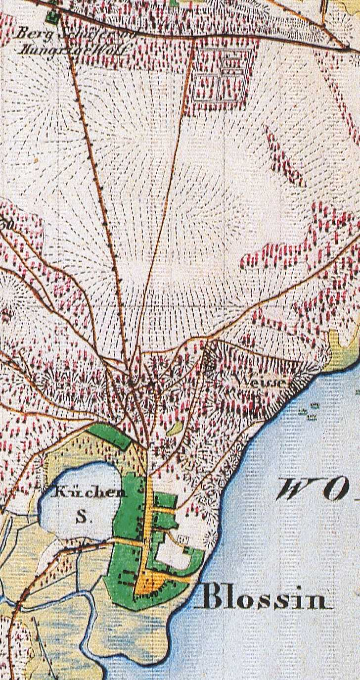 Blossin, Gem.Heidesee, Lkr. Dahme-Spreewald, Brandenburg, Germany, detail from the Urmesstischblatt Sheet 3748 Friedersdorf, drawn in 1841